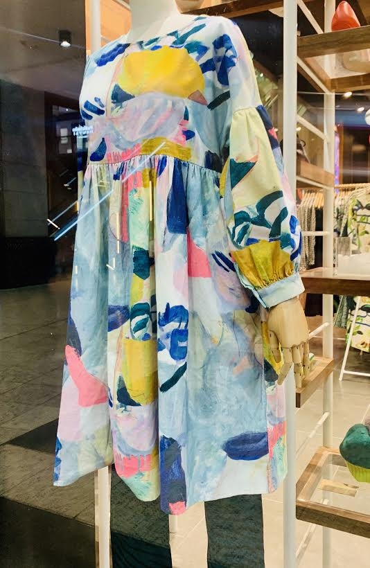 A photo of a dress in the Gorman shop window.